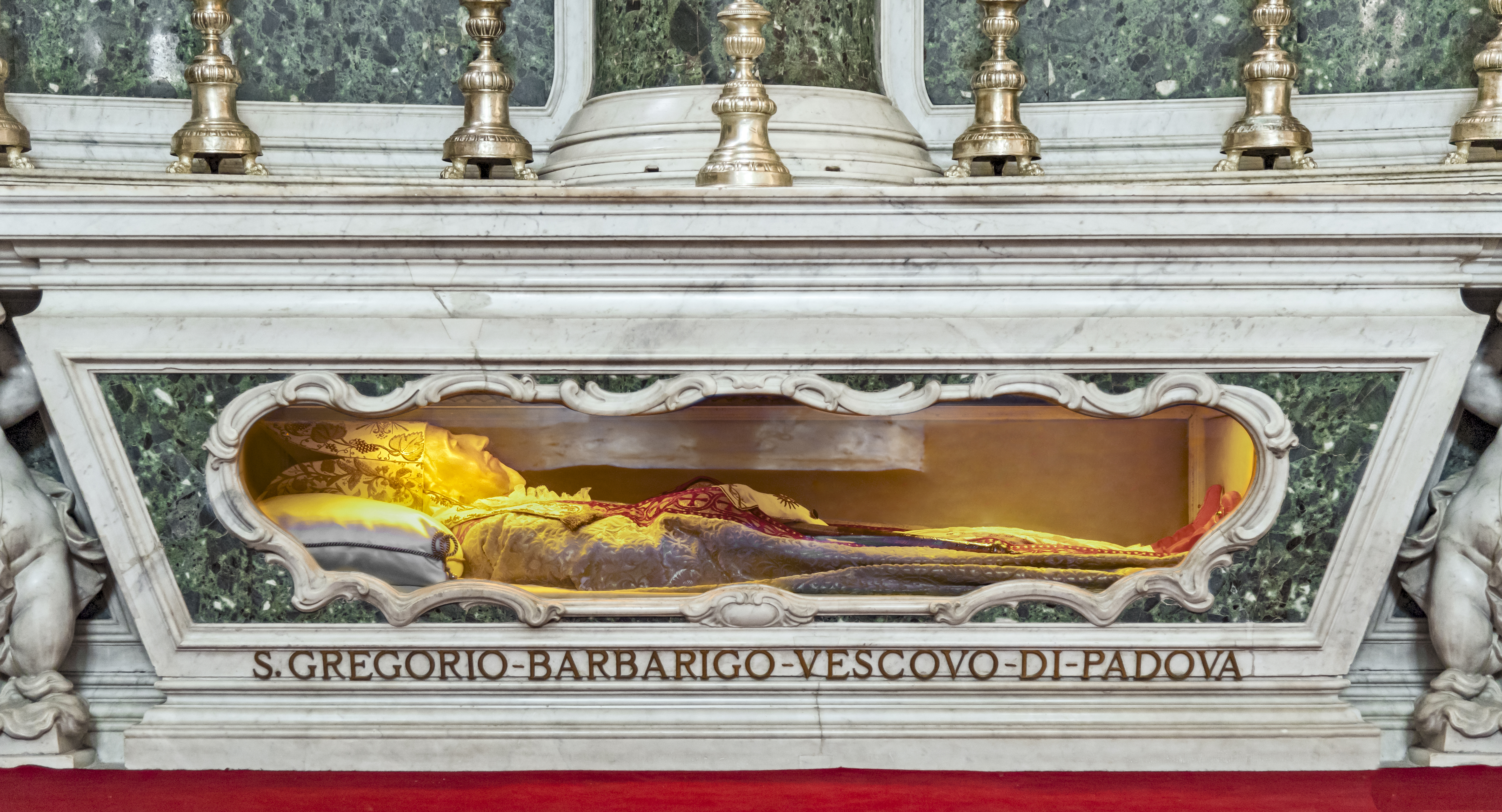 The third chapel is dedicated to S.Gregorio Barbarigo (Gregory Barbarigo) - the body of the Saint